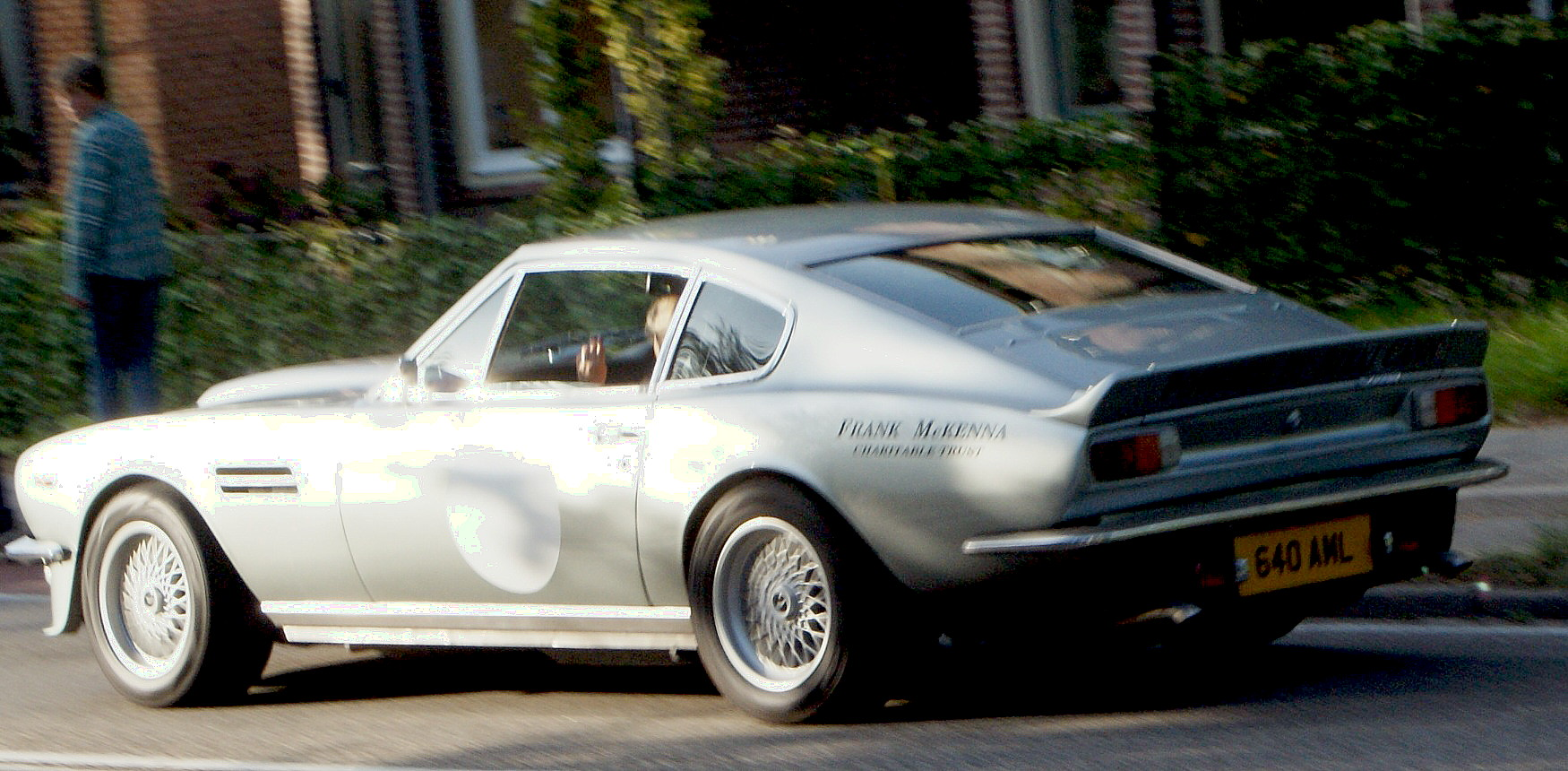 Cropped and modified version of File:Aston Martin Vantage (9009018323).jpg Picture shows one of only 16 Aston Martin V8 Vantage "bolt-on fliptail" Coupés manufactured in 1977